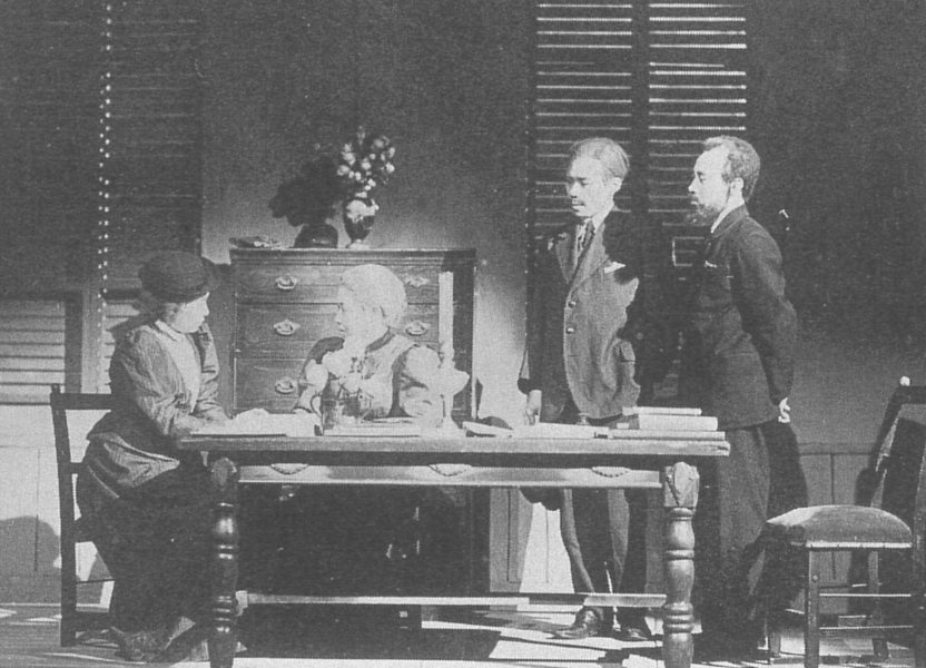 Yōko Sayuri (Japanese, *1901, †1986) and Sachiko Murase (Japanese, *1905, †1993) on the Stage